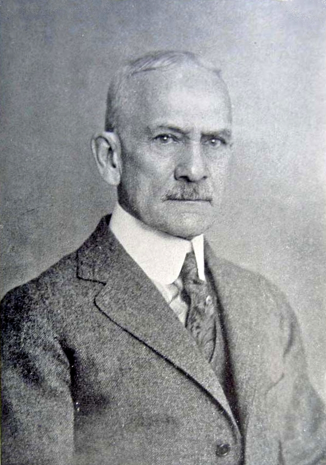 Portrait of Charles E. Chapin, from Chapin, Charles E. Charles Chapin's Story Written In Sing Sing Prison. New York: G. P. Putnam's sons, 1920.